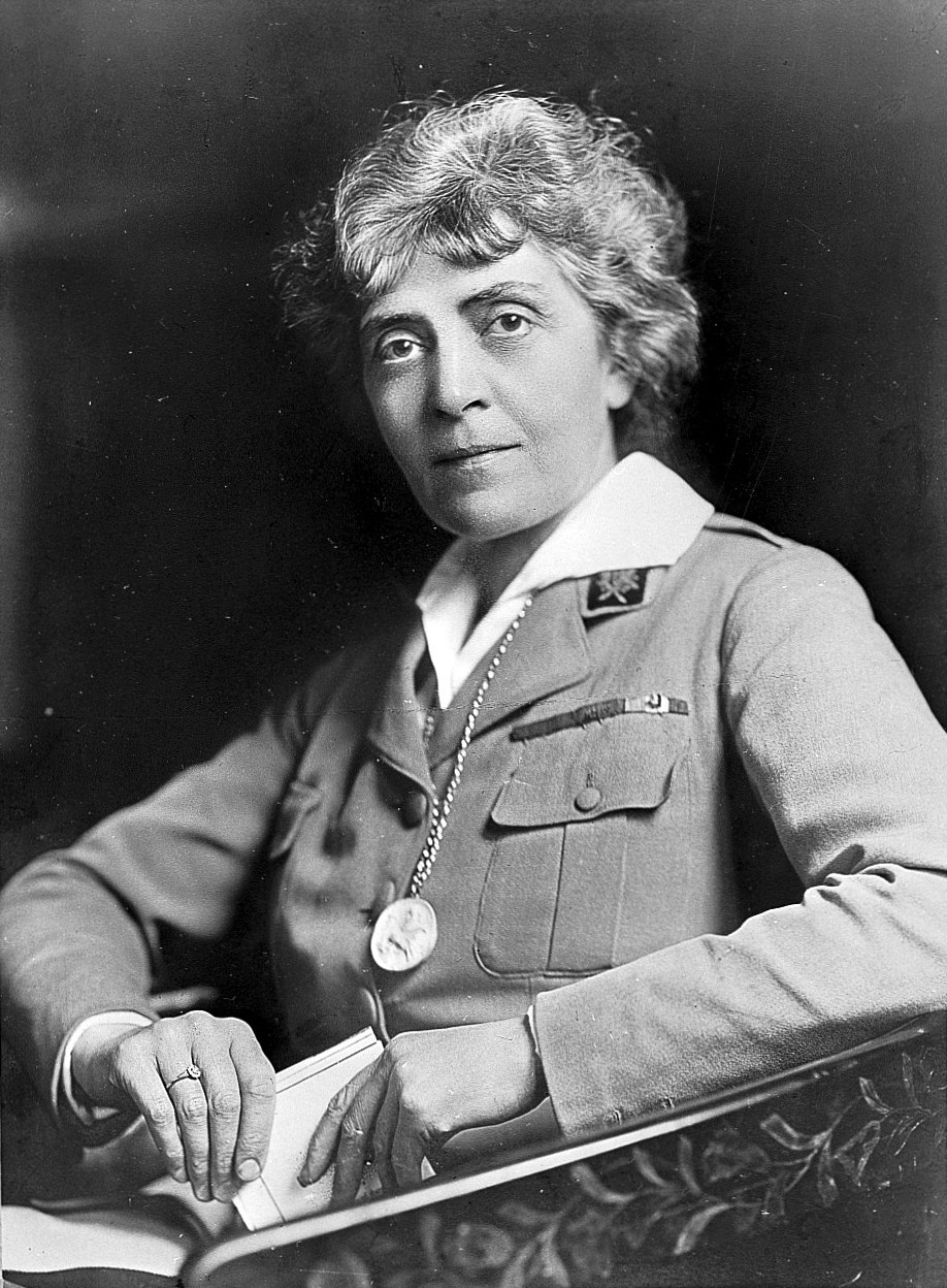 Portrait of Frances Ivens. Wellcome Images Keywords: Frances Ivens